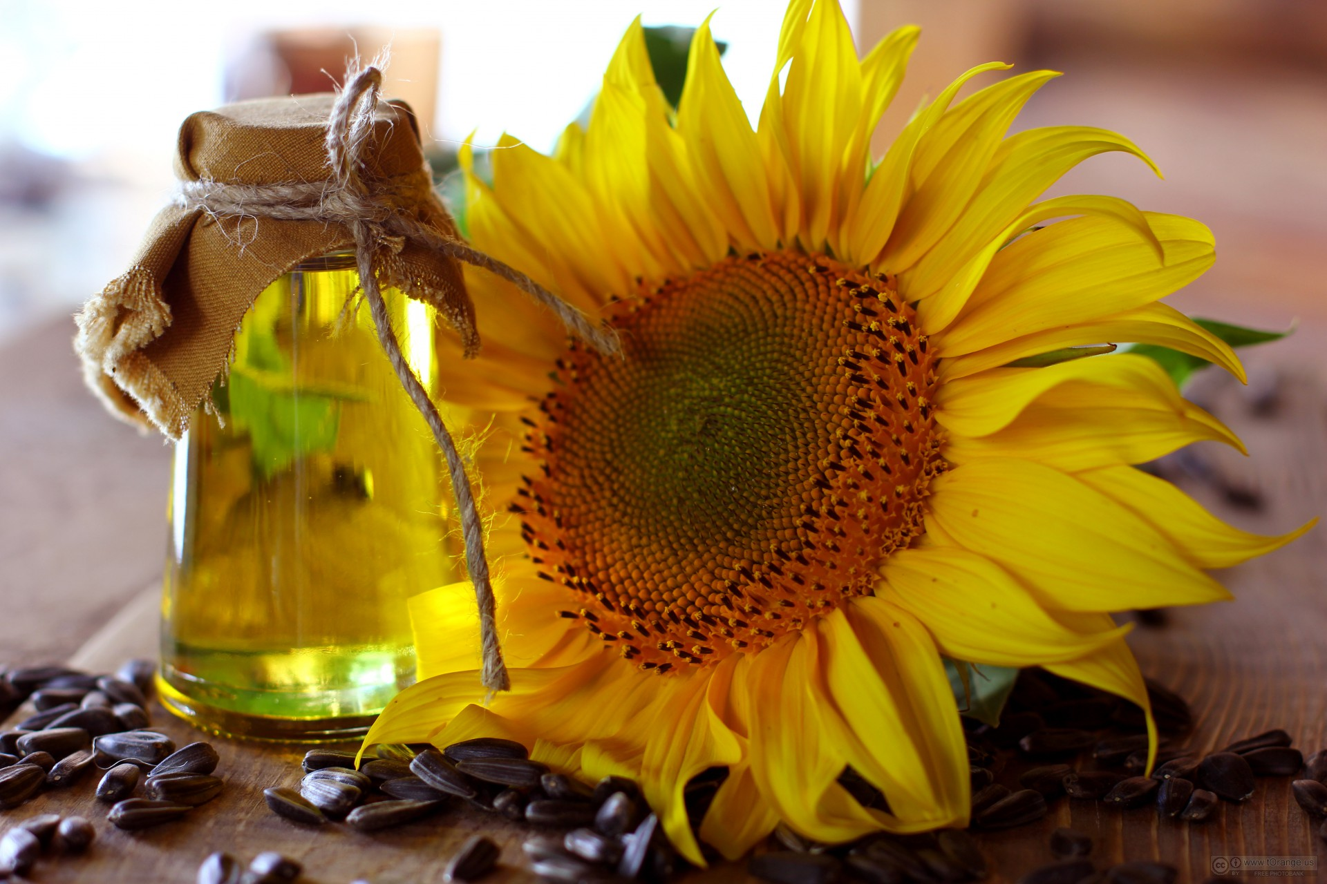 Crude sunflower oil unrefined